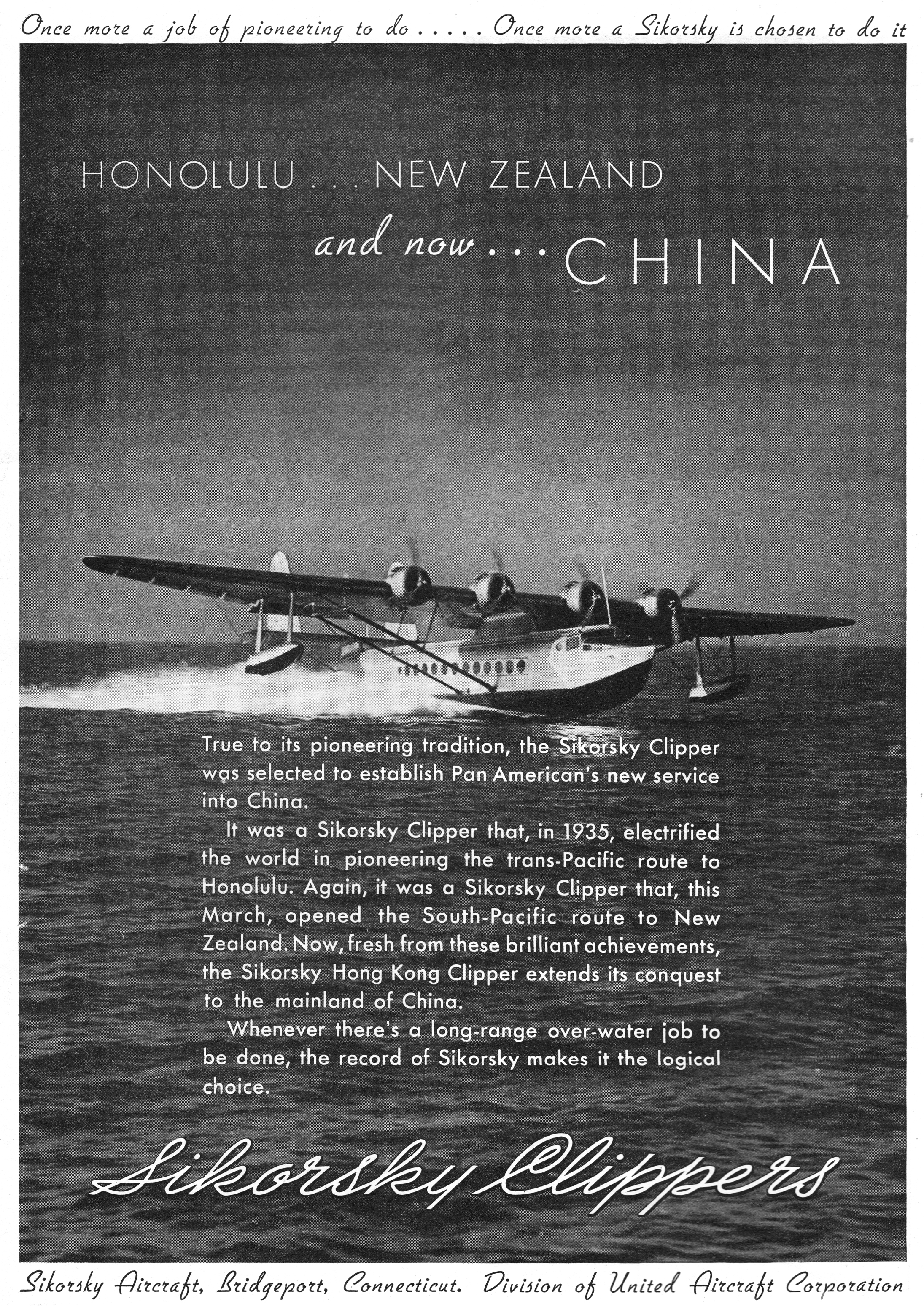 Sikorsky Aircraft Corporation advertisement Model S-42 Clipper Flying Boat 1937